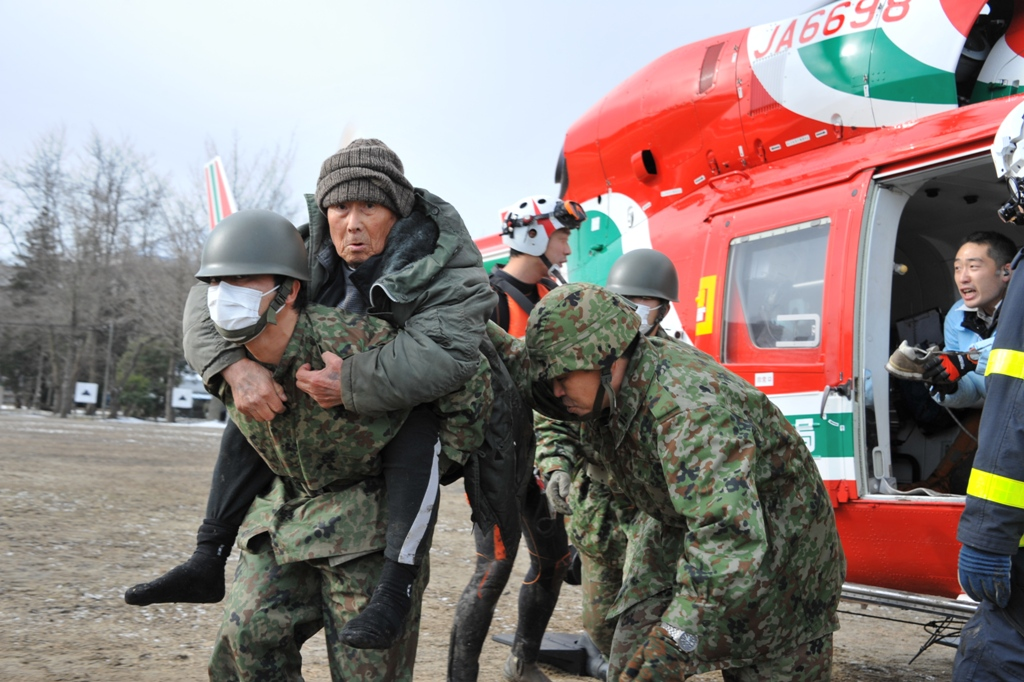 Title 23.3.12 ６Ｄ：消防ヘリでの救出・被災者をおんぶする隊員.JPG Album 東日本大震災における災害派遣活動 人命救助活動